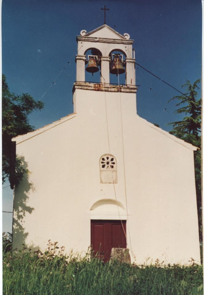 Crkva Sv. Đorđa pre rata